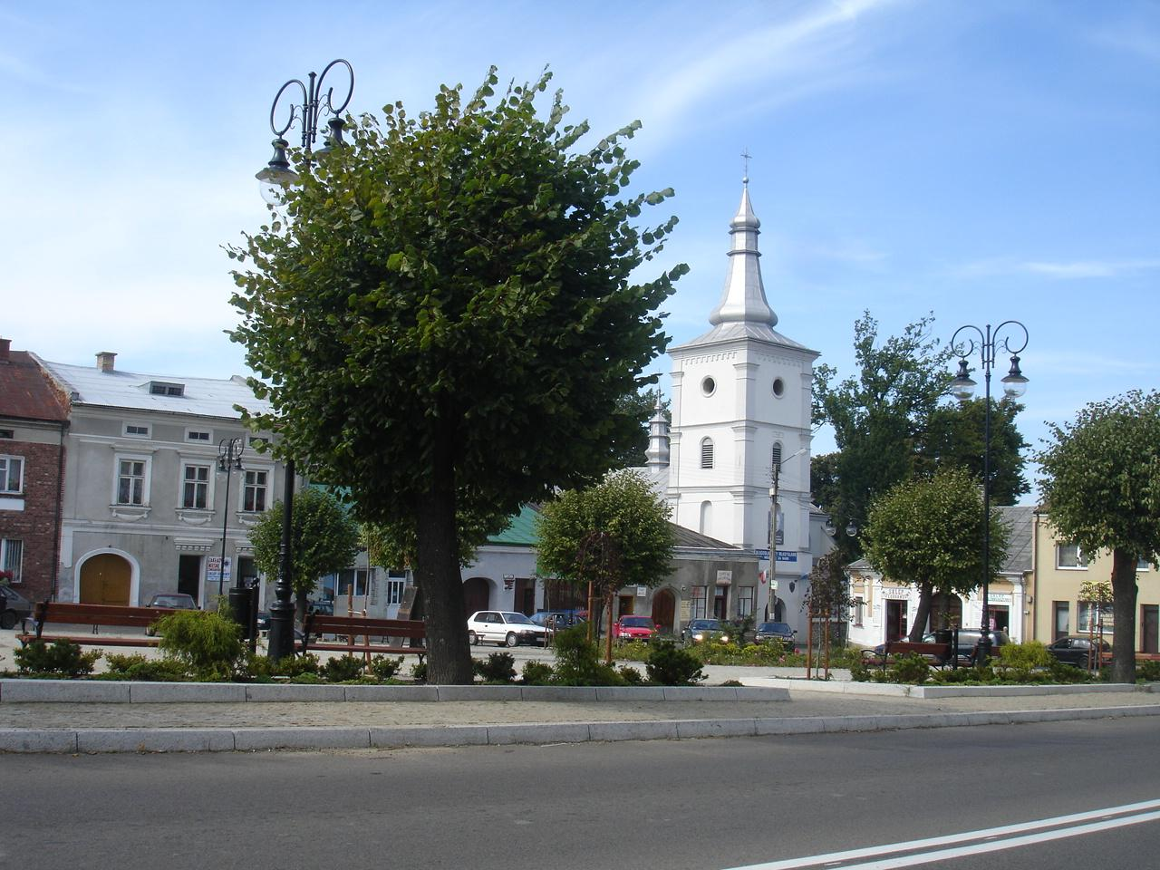 Nowy Żmigród (Poland) - main street, center of village.